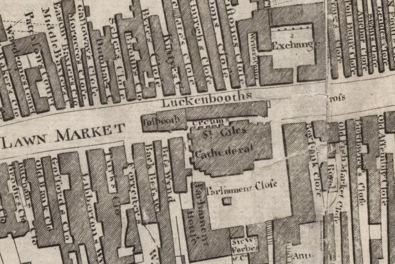 St. Giles and surrounding area from a town plan by Alexander Kincaid, 1784